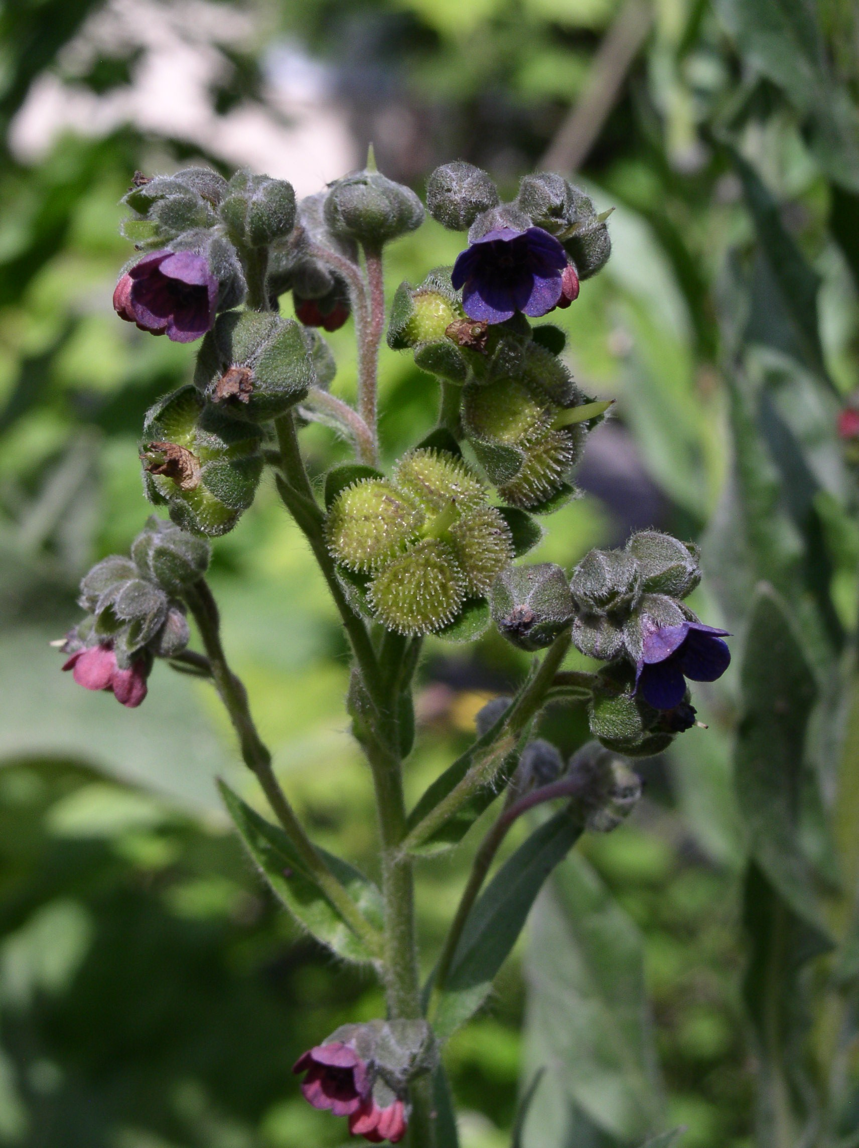 Flowers and fruits of Cynoglossum officinale in Turku, Finland.